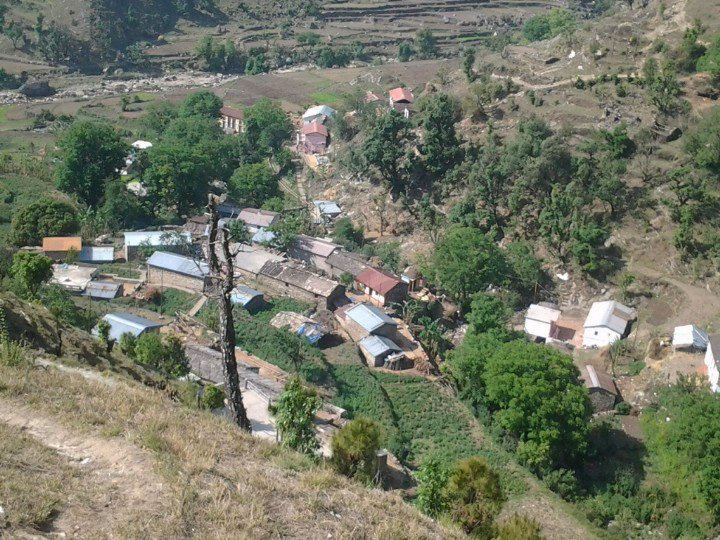 This is the photo of raulyana.